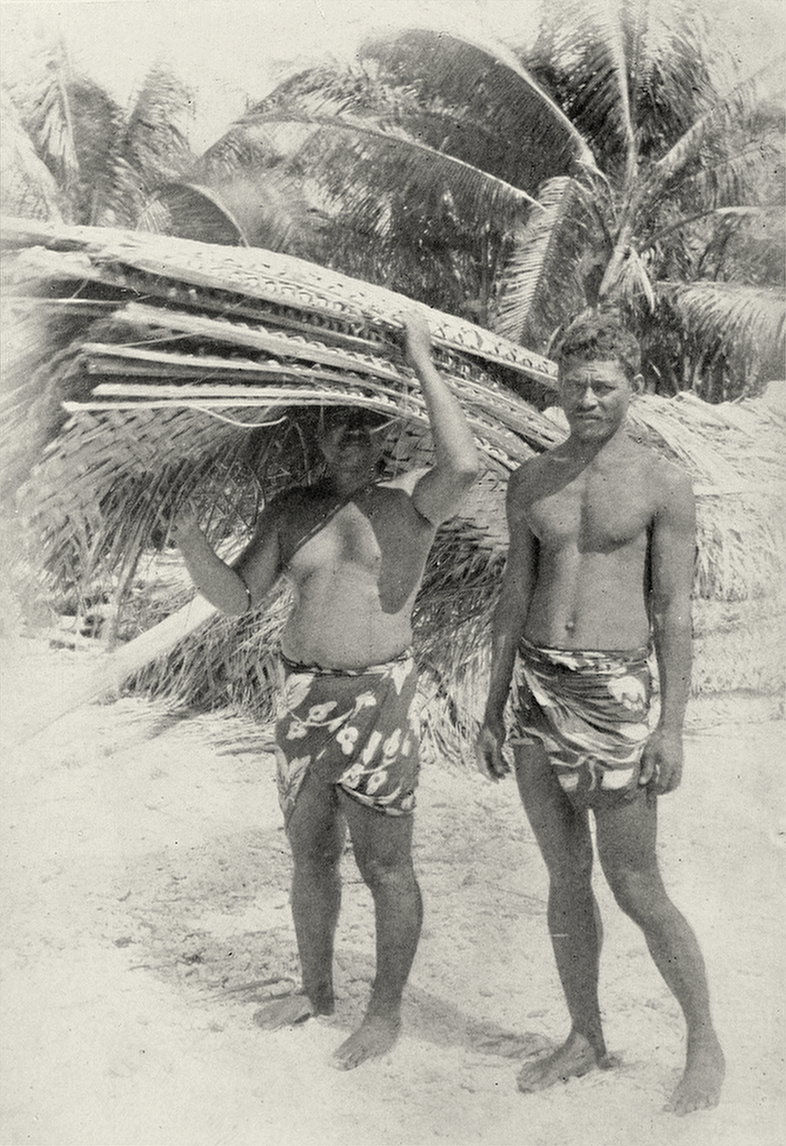 Pearl divers moving their house, Hikueru Island, Paumotus.